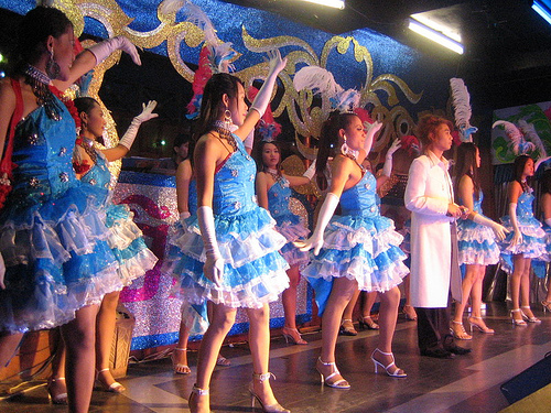 A typical Luk Thung concert